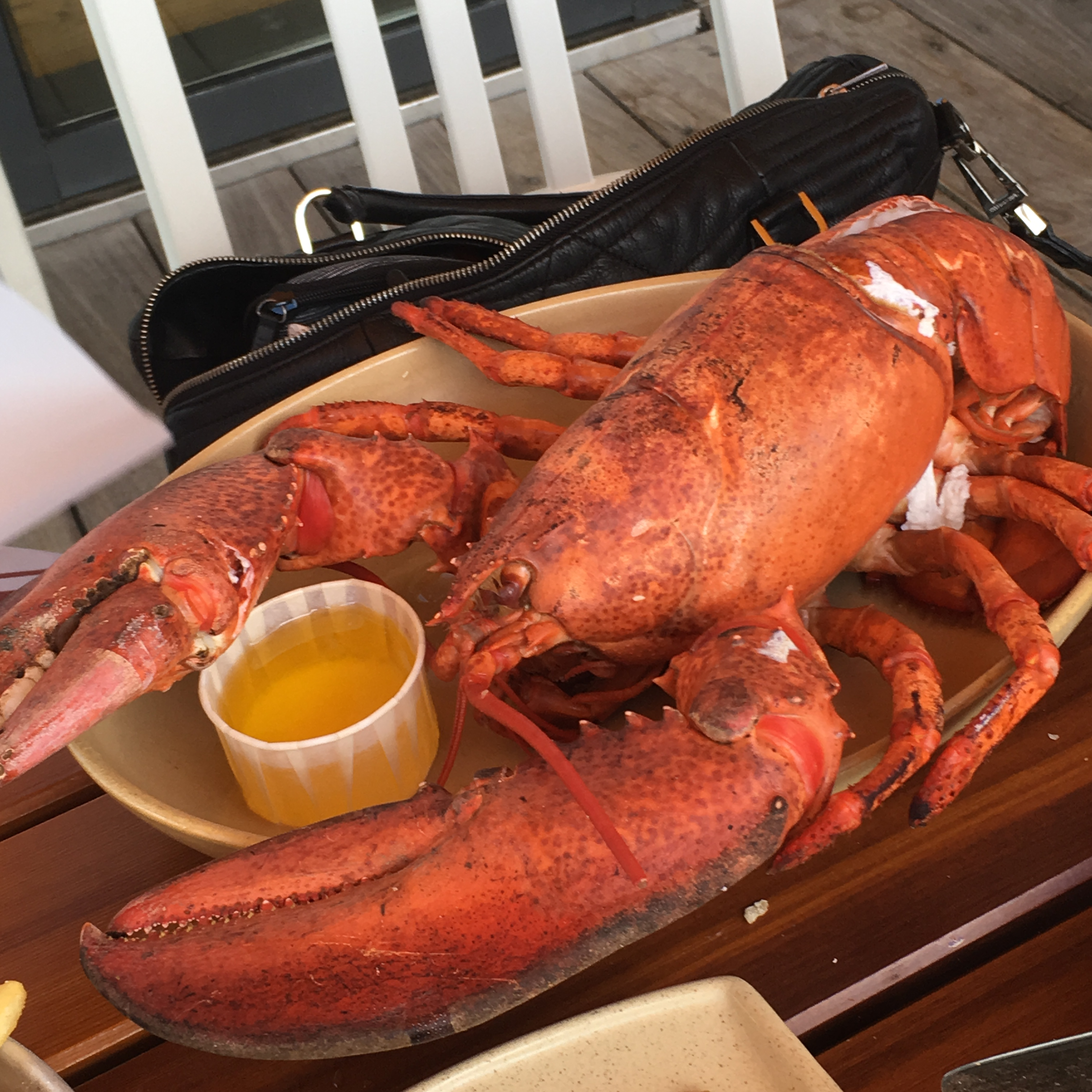 Lobster served at the Fisherman's Wharf in Boston